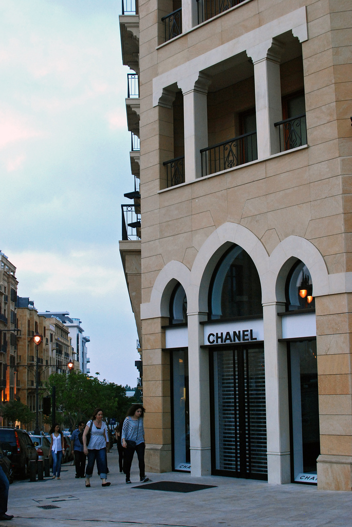 rebuilt and renewed.